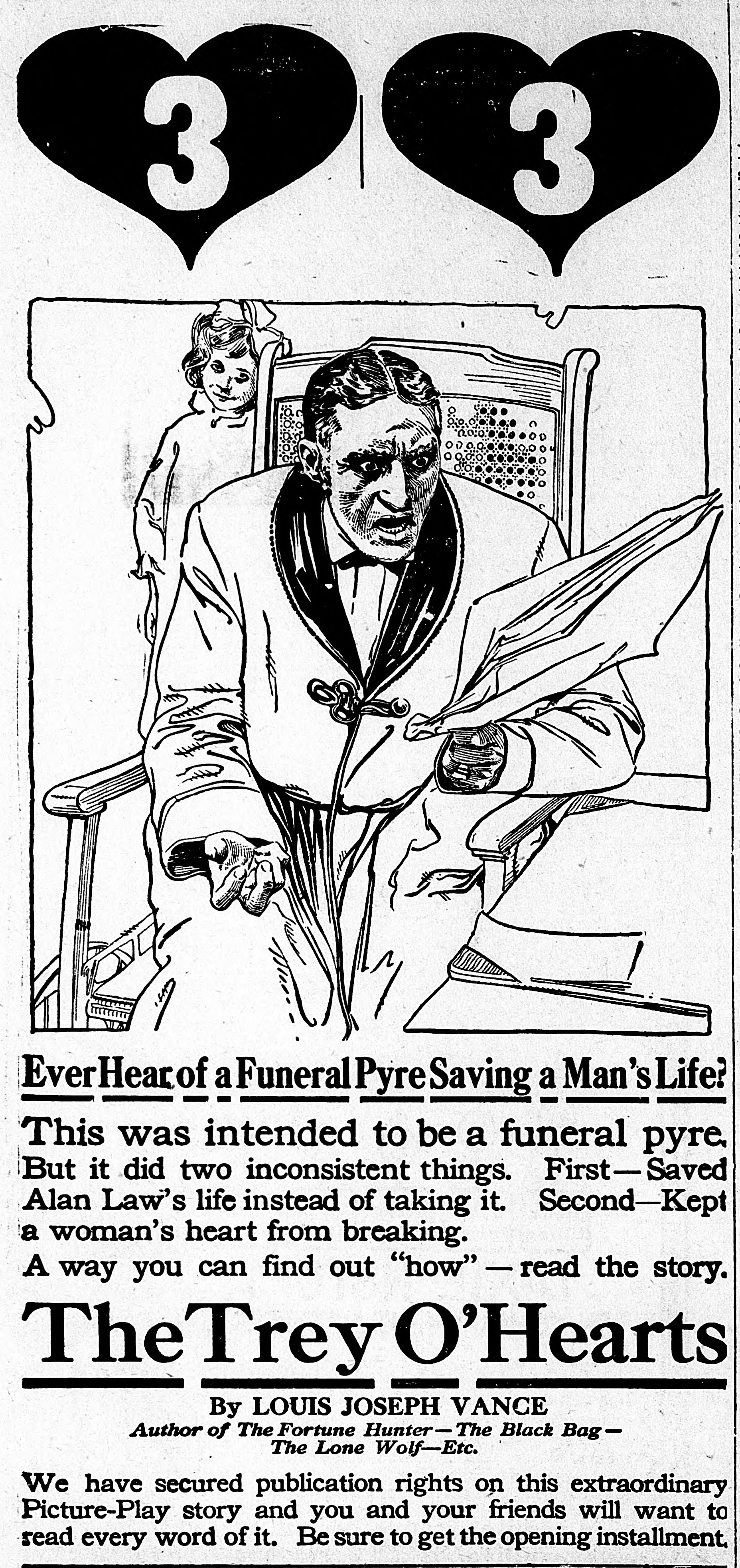 The Trey o' Hearts is a 1914 action film serial directed by Wilfred Lucas and Henry MacRae. It was based on the novel of the same name by Louis Joseph Vance. This film is currently considered to be lost. This is a newspaper advertisement for the film.